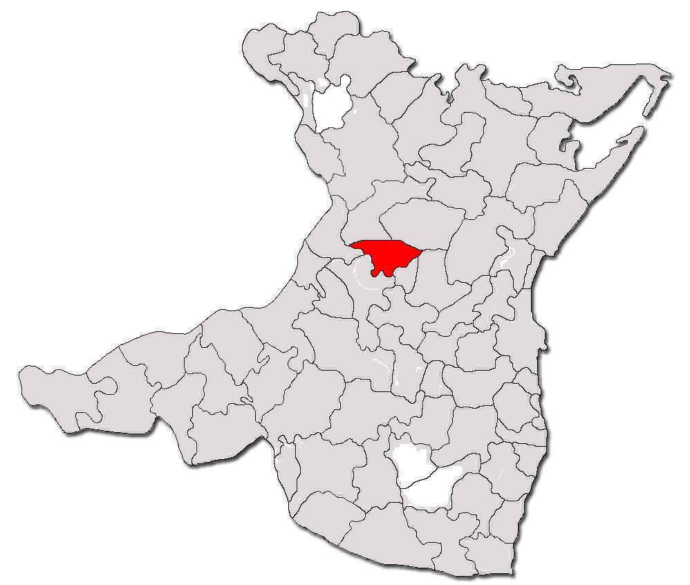 Contour of Tortoman commune